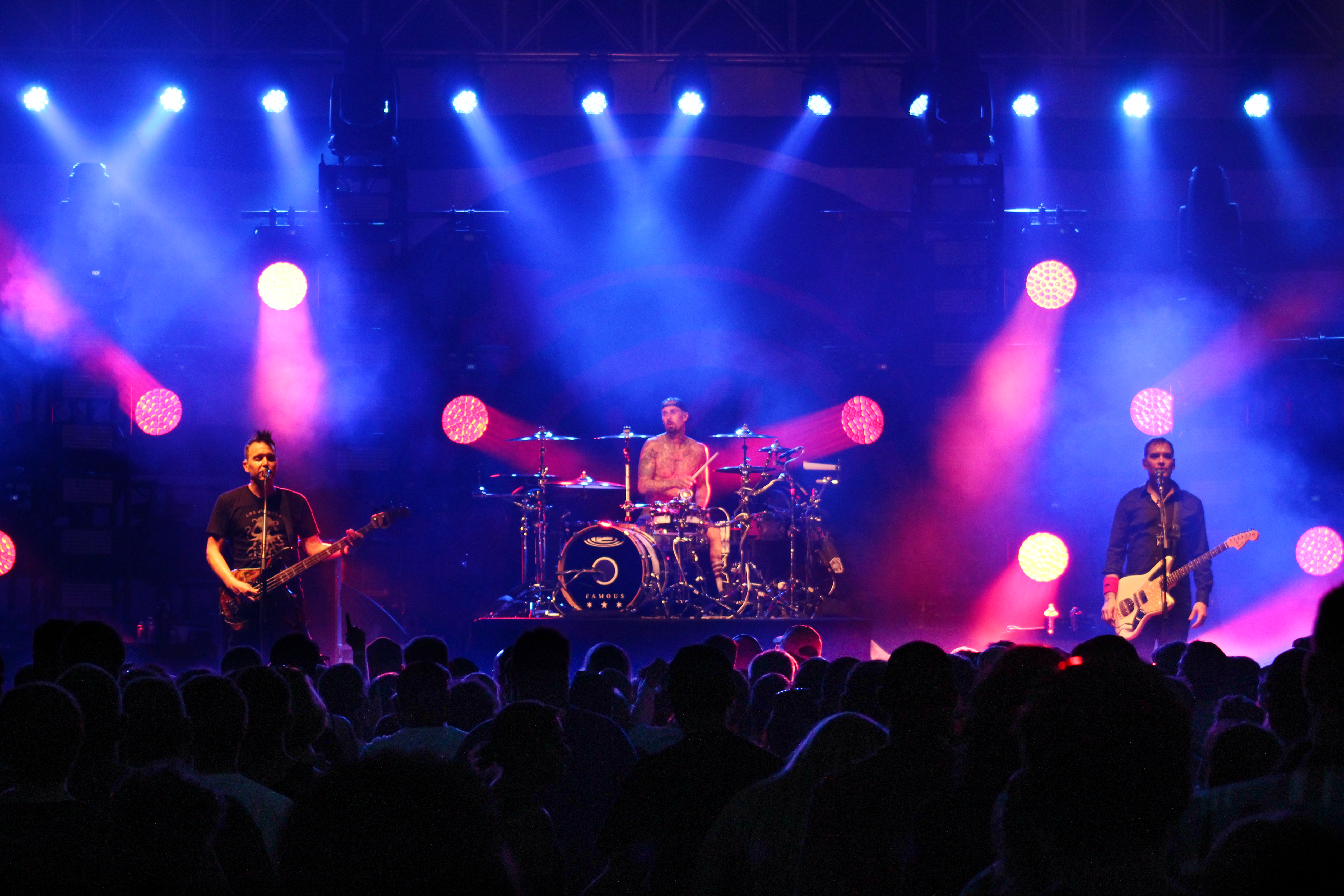 Blink-182 performing at the Innsbrook Pravilion as a part of XL102's Big Field Day in Richmond, Virginia on June 18, 2016. From left to right: Mark Hoppus, Travis Barker, and Matt Skiba.